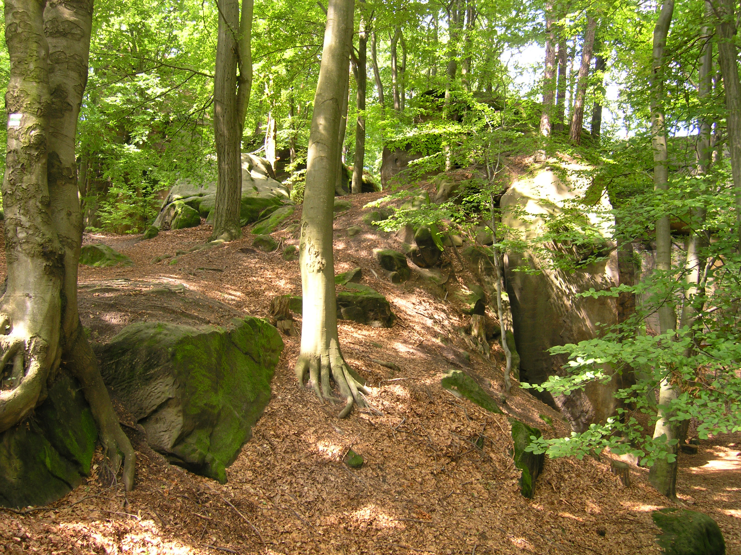 The rocks by Zbirohy castle in Koberovy village, Czech Republic